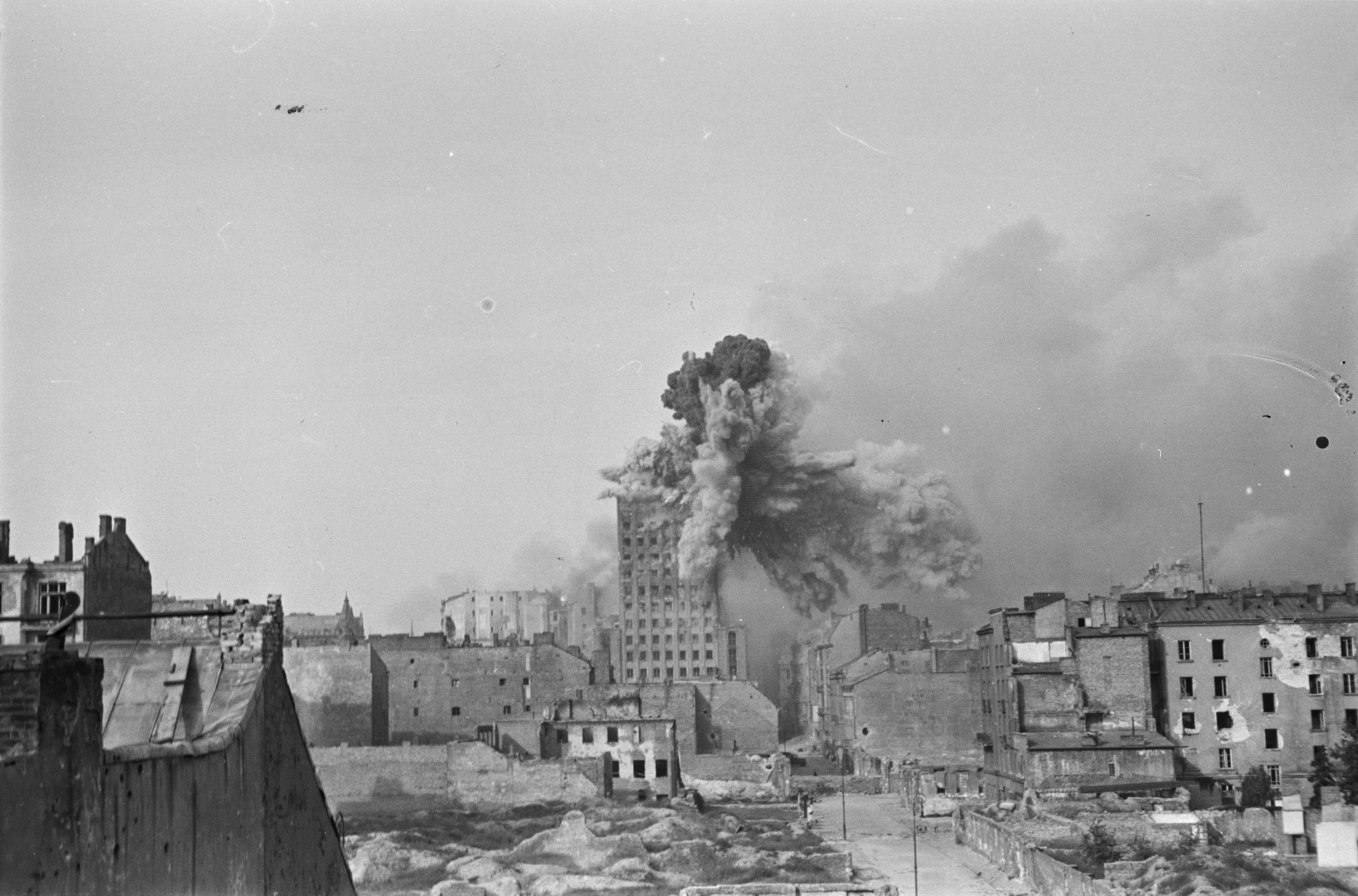 Warsaw Uprising: On August 28 Prudential building was hit by 2-ton mortar shell from Mörser Karl. View from roof of a house at ul. Kopernika 28.